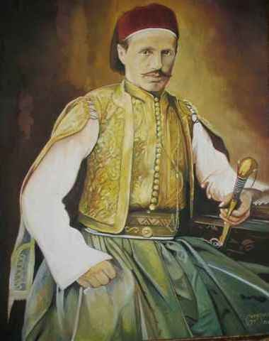 Youssef Bey Karam Portrait